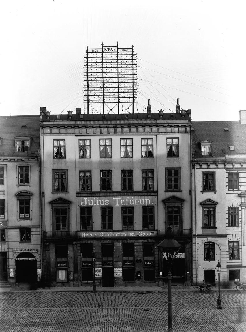 Nytorv 5 when the textile merchant Julius Tafdrup's company was based in the building in Copenhagen, Denmark